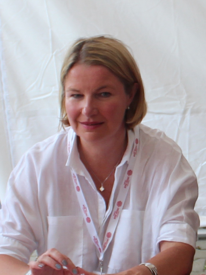 Csilla Hegedüs